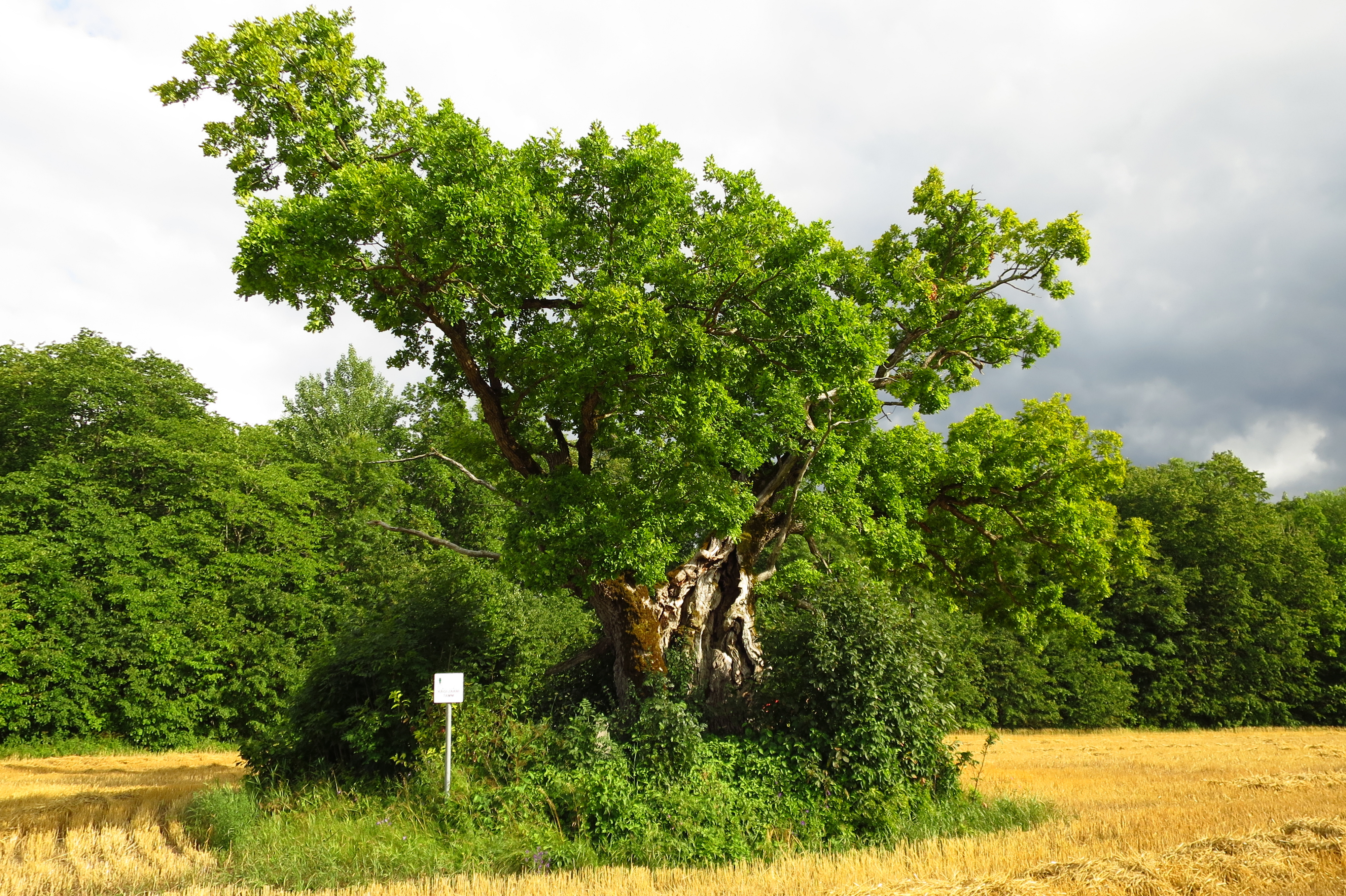 Kägi-Jaani tamm Saaremaal